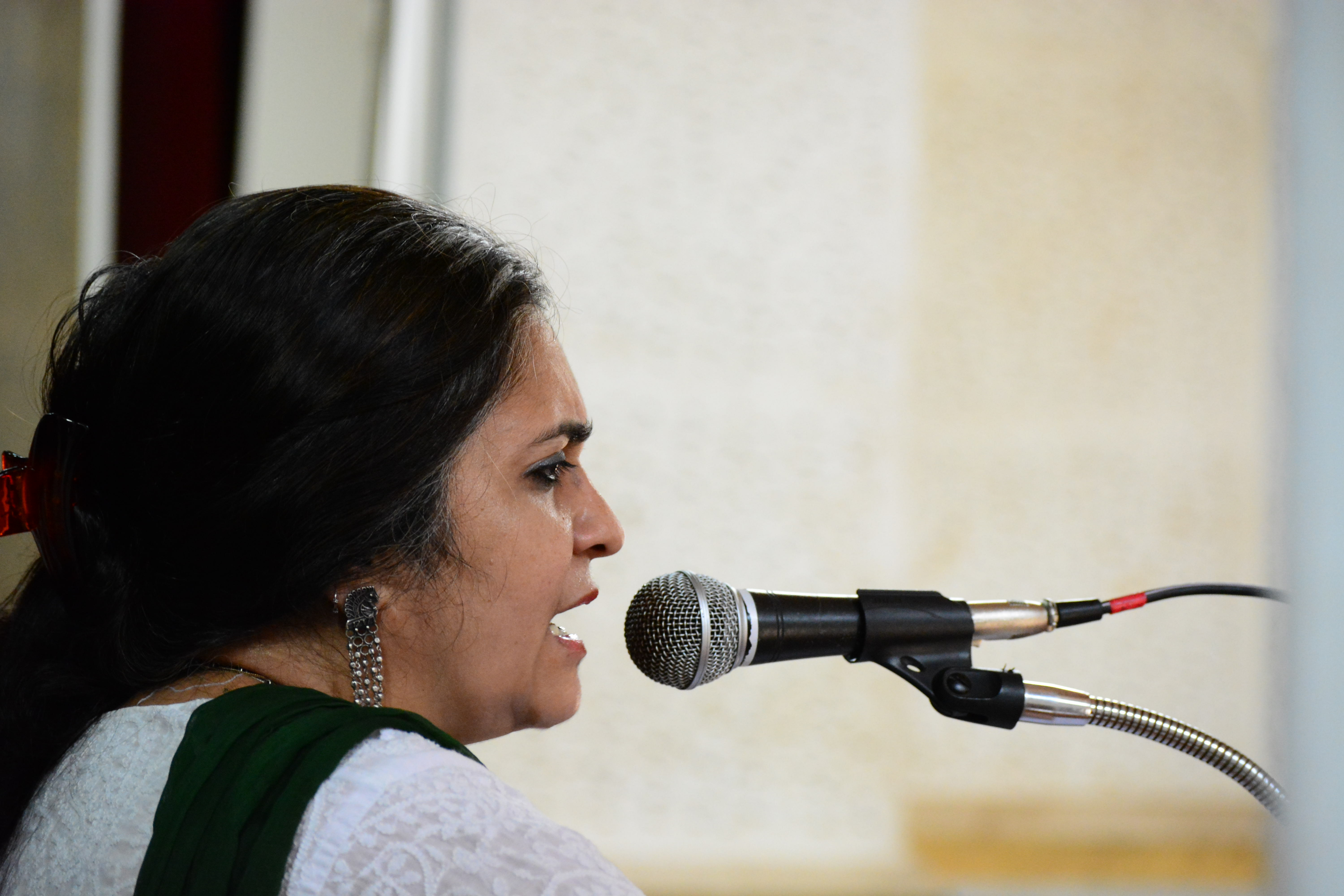 Teesta Setalvad addressing a gathering at VJT Hall Trivandrum, Kerala. Photo by: Syed Shiyaz Mirza